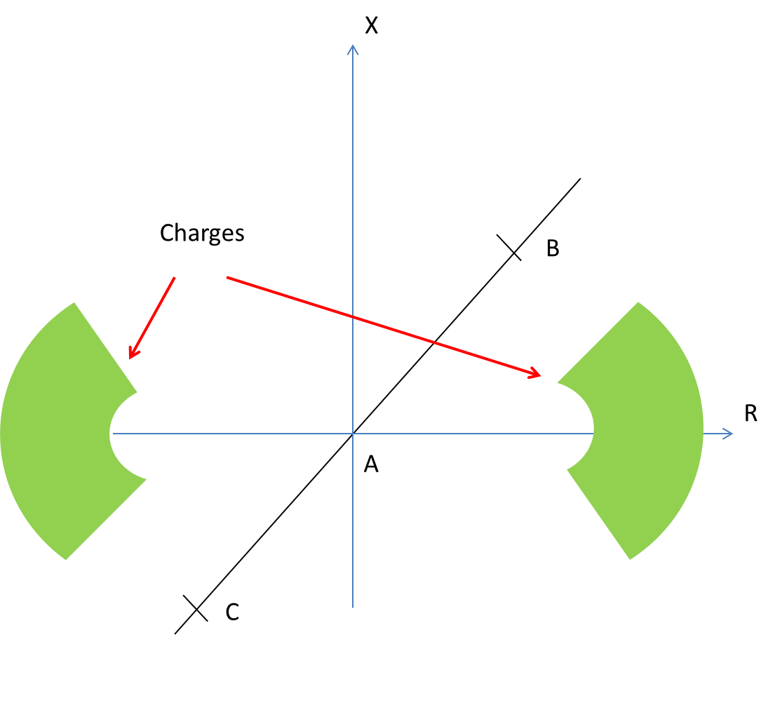 Load impedance on a RX diagram.